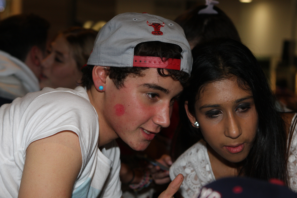 Janoskians appearance at Liverpool, Westfield